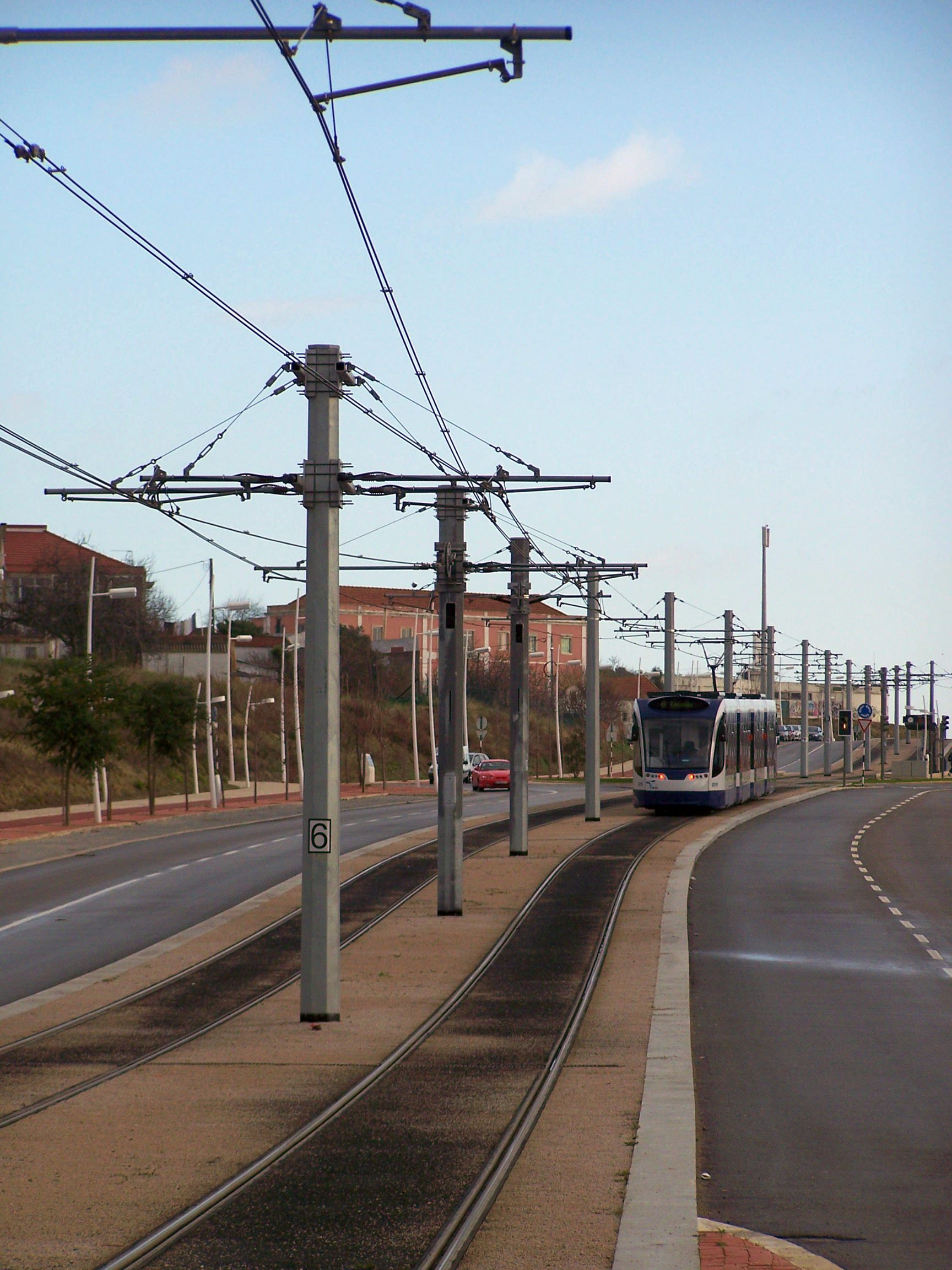 A train of the Metro Sul do Tejo on the University branch, Almada, Portugal. Siemens Combino Plus tram, built 2007, Metro Transportes do Sul (MTS) operator.